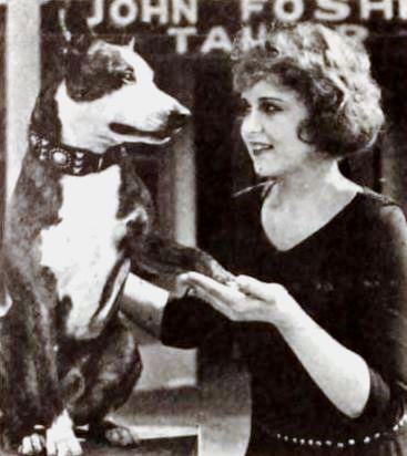 Actress Florence Lee (1888 – 1962) and Brownie the Dog, on page 74 of the June 18, 1921 Exhibitors Herald. Lee and Brownie were together in a few films in 1921. Note: There was another actress with the same name, this is the Lee born in 1888.